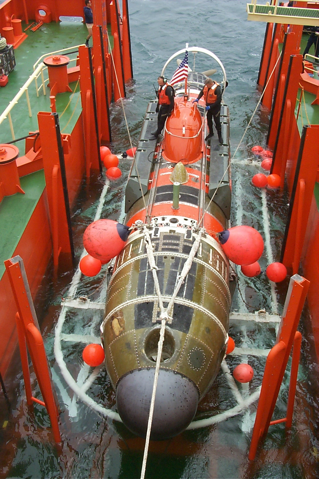 DSRV 2 Avalon being launched from a surface support ship for training ops.